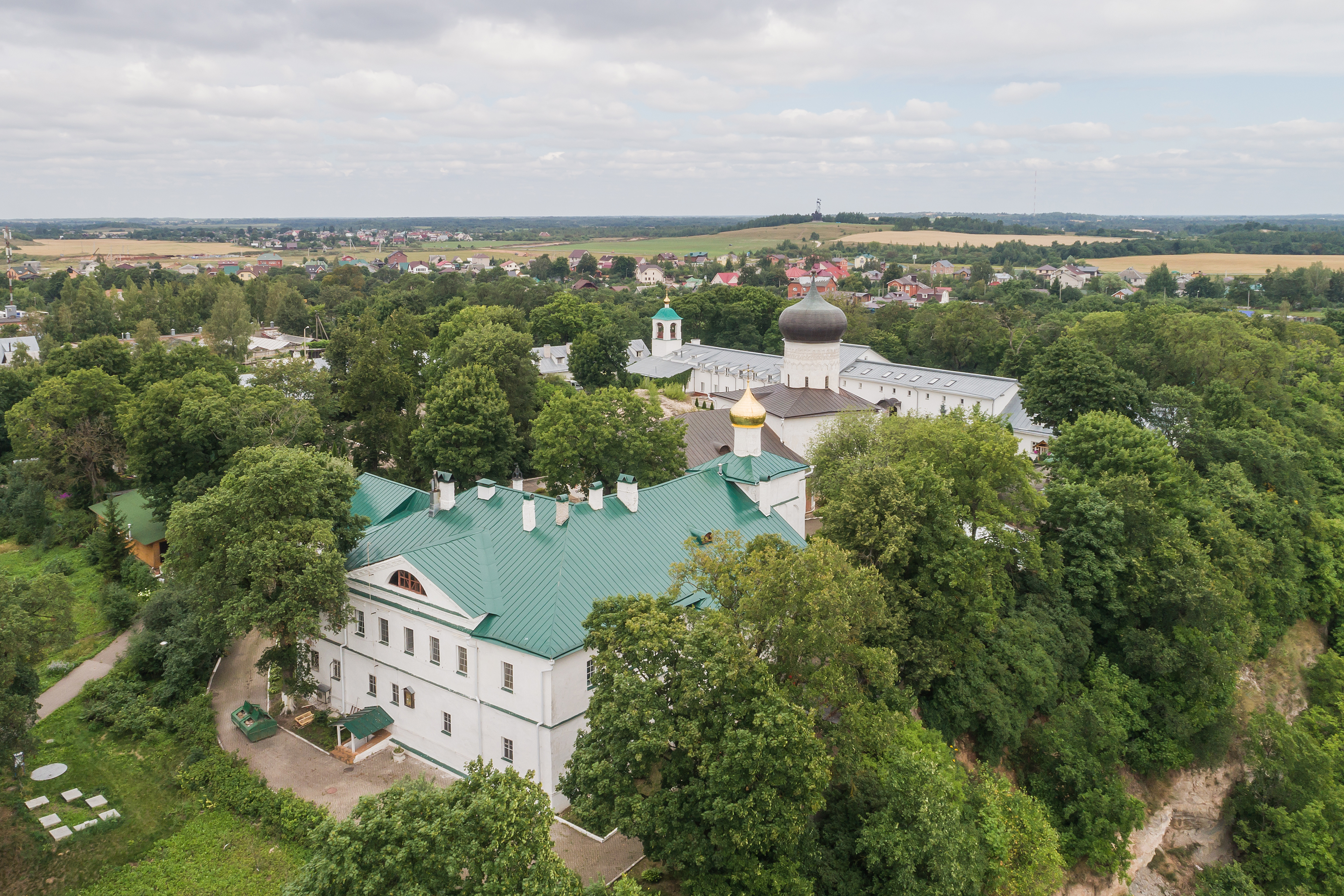 Aerial photo of Snetogorsky Monastery in Pskov, Russia